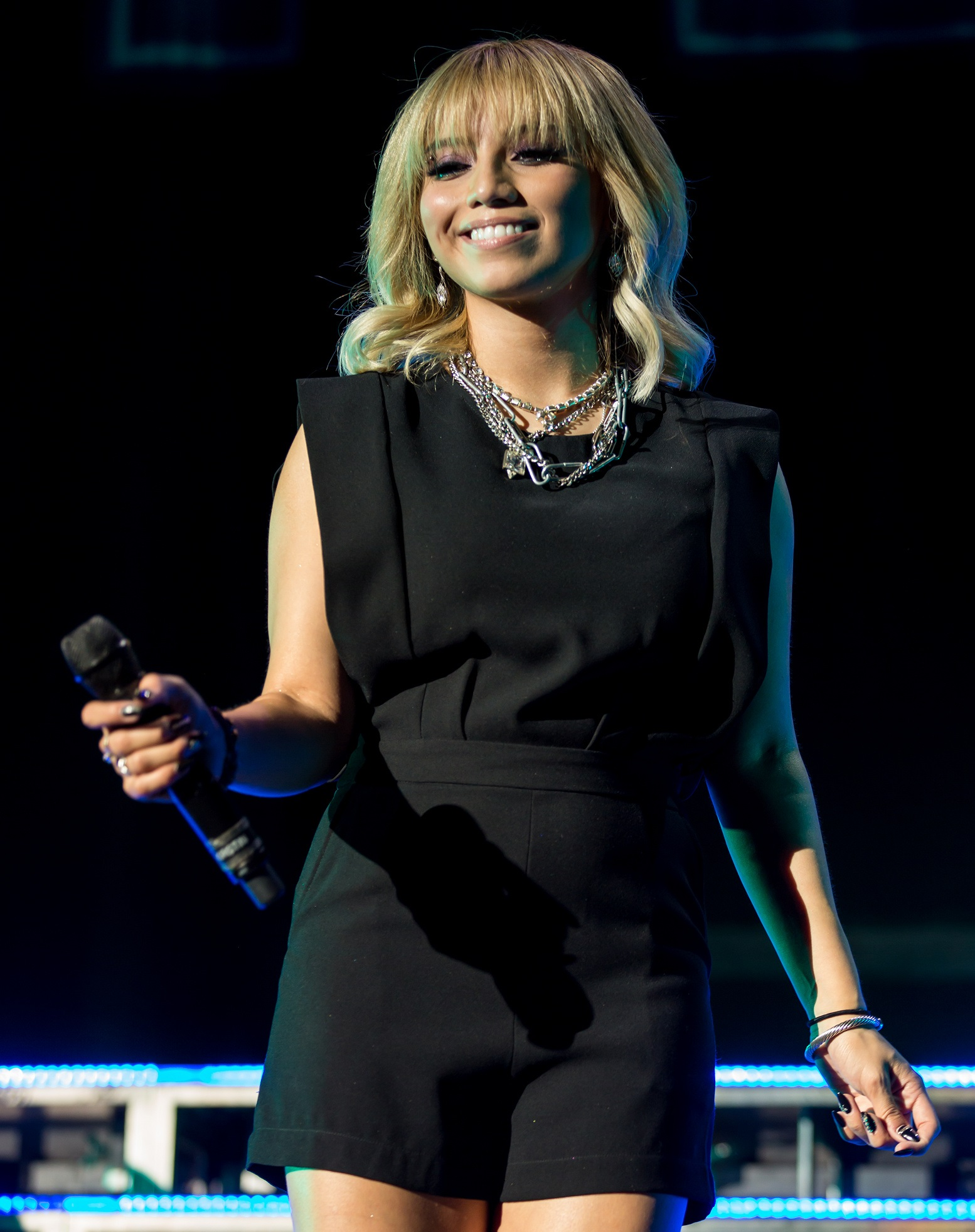 Kirsten Maldonado performing with Pentatonix at the Austin360 Amphitheater in Austin, Texas on August 29, 2015.